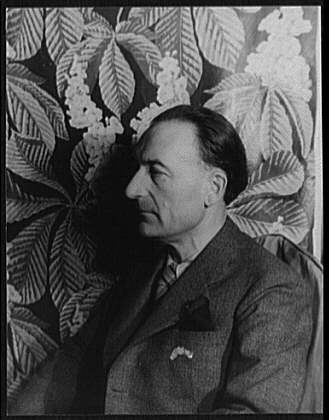 Portrait of Jules Romains